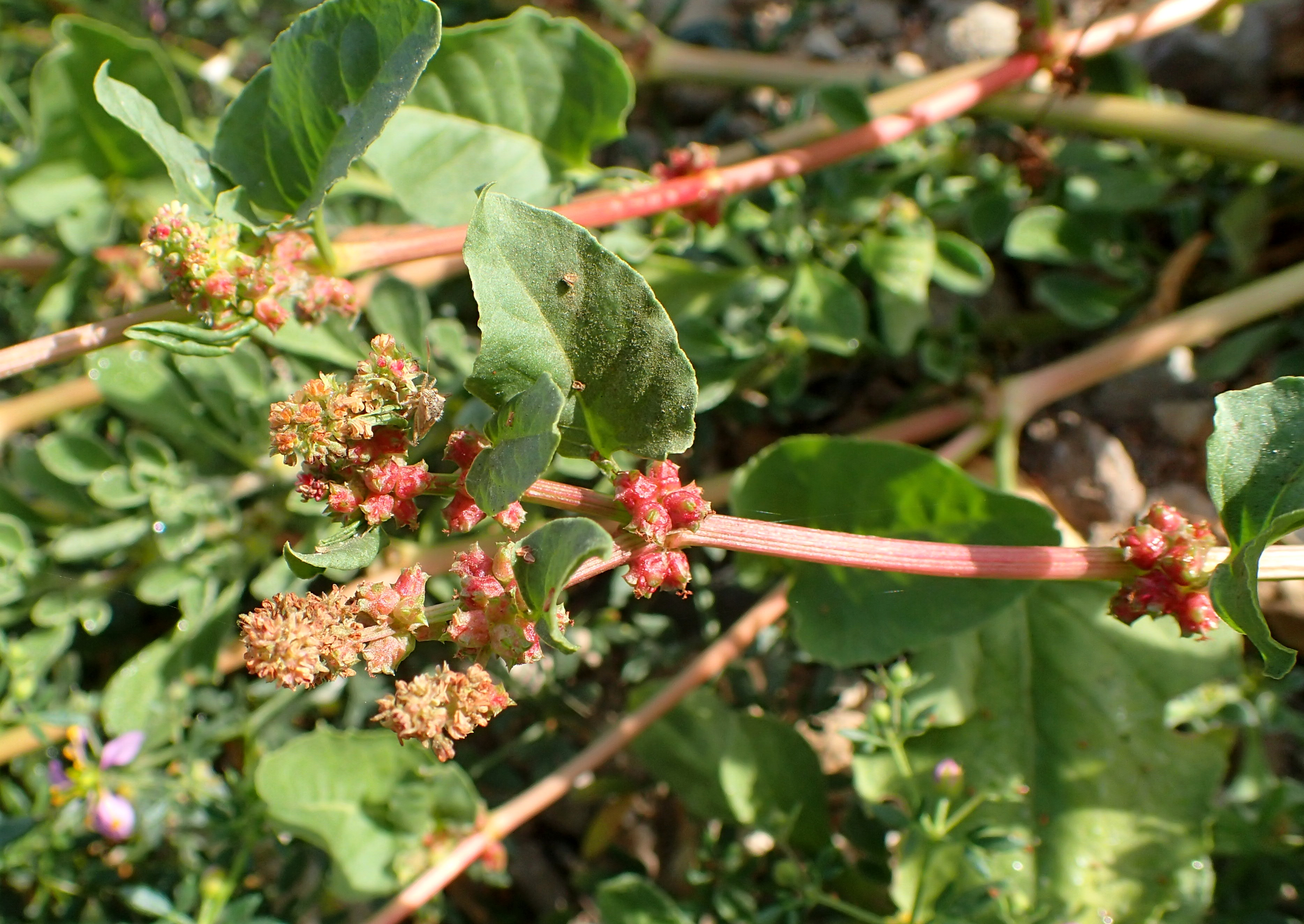 Emex spinosa in Moreque, Tenerife, Canary Islands